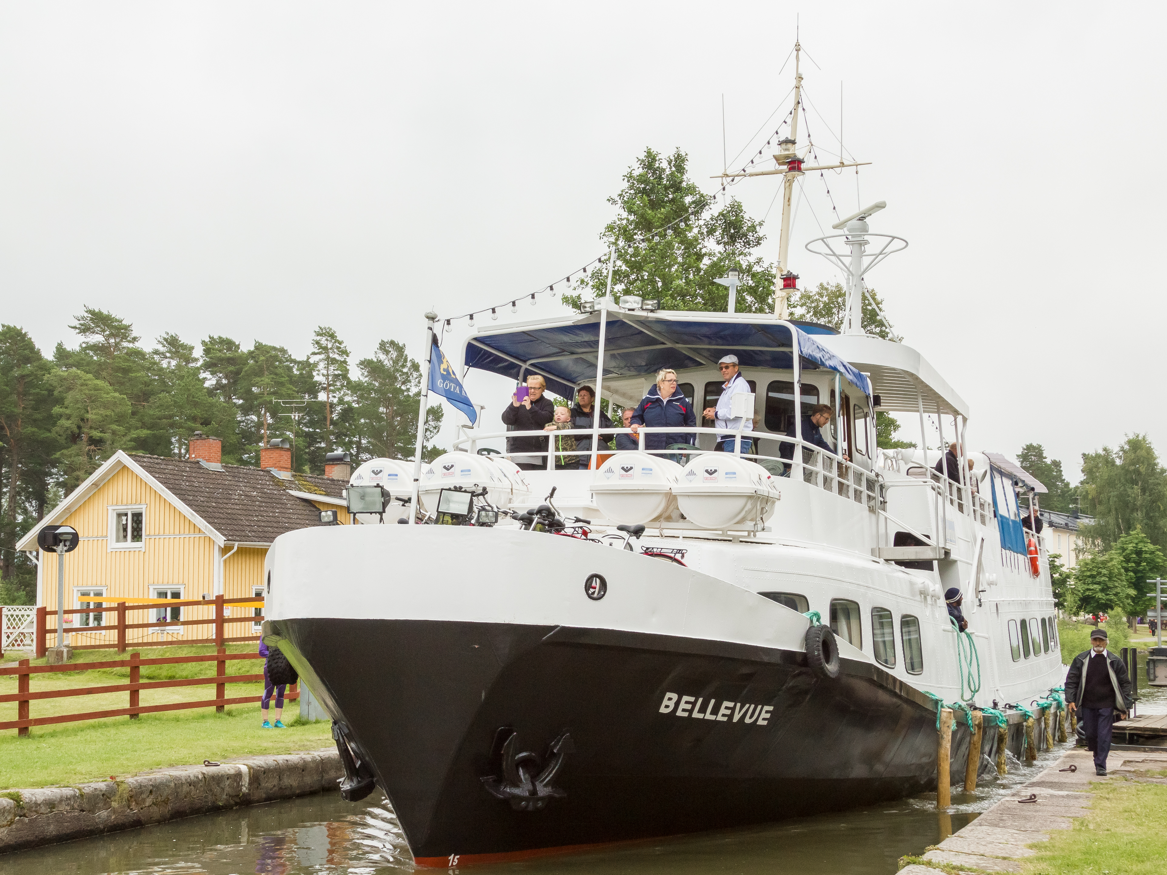 Ship Bellevue in the canal lock of Norrkvarn, Göta Canal.